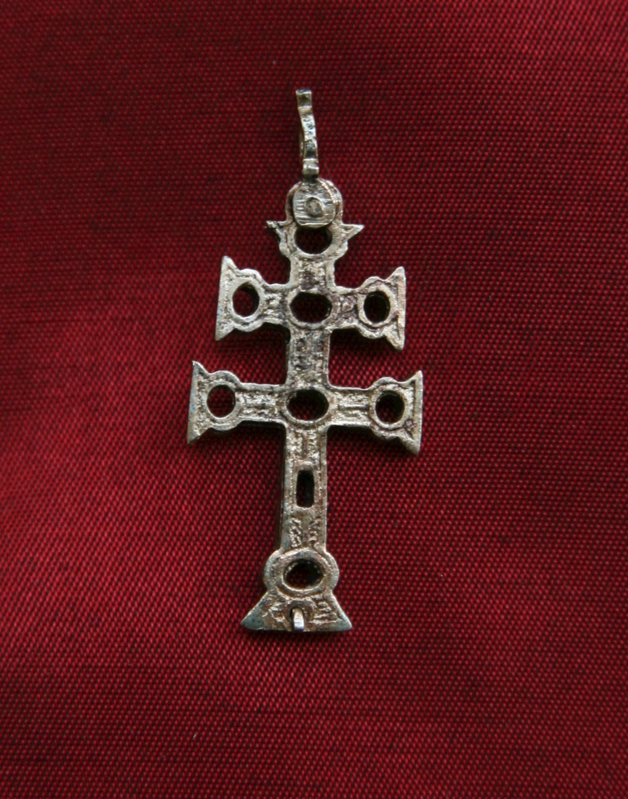 Photograph of 17th century white bronze Caravaca cross, excavated in 2003 on the grounds of Ximenez-Fatio House Museum